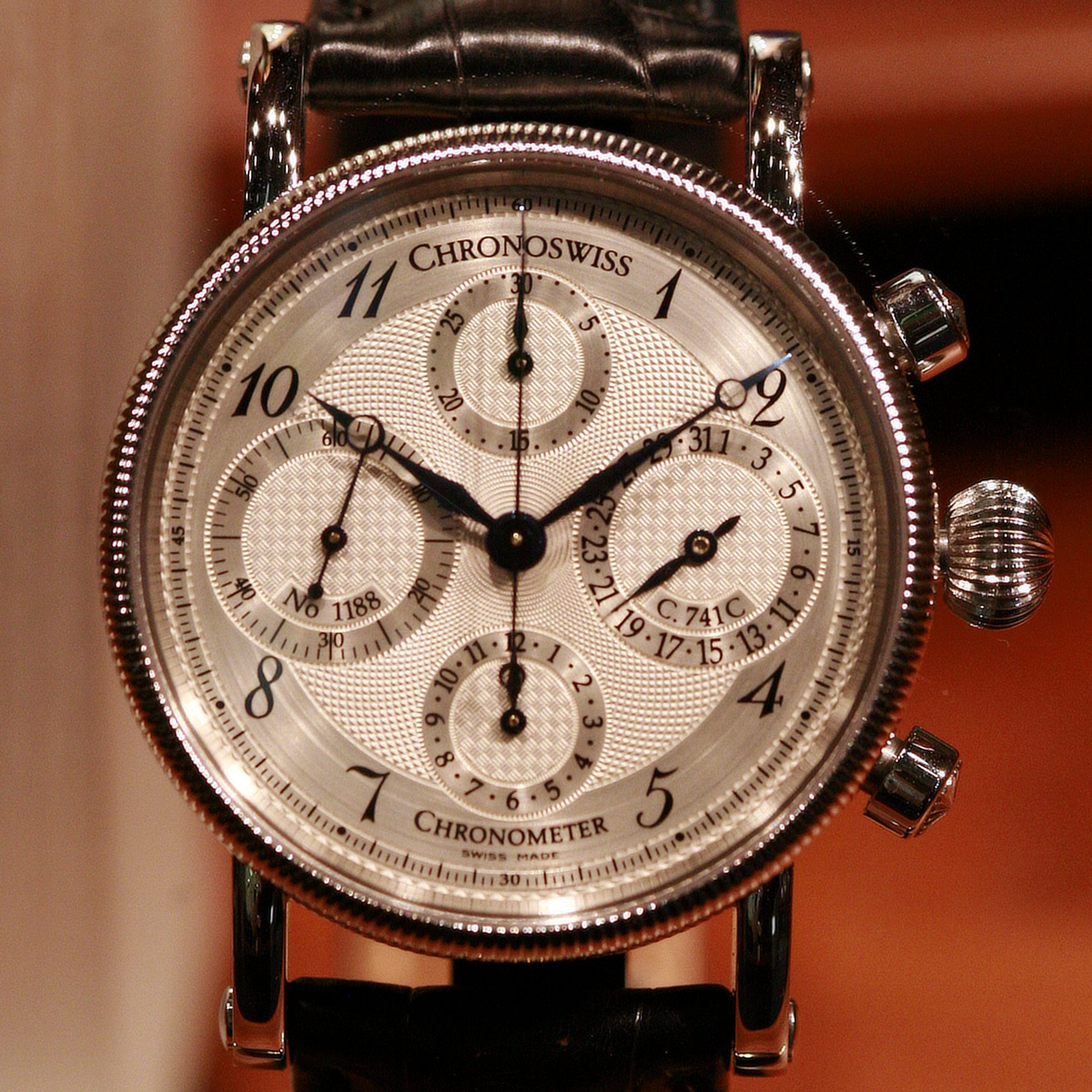 Chronoswiss watch